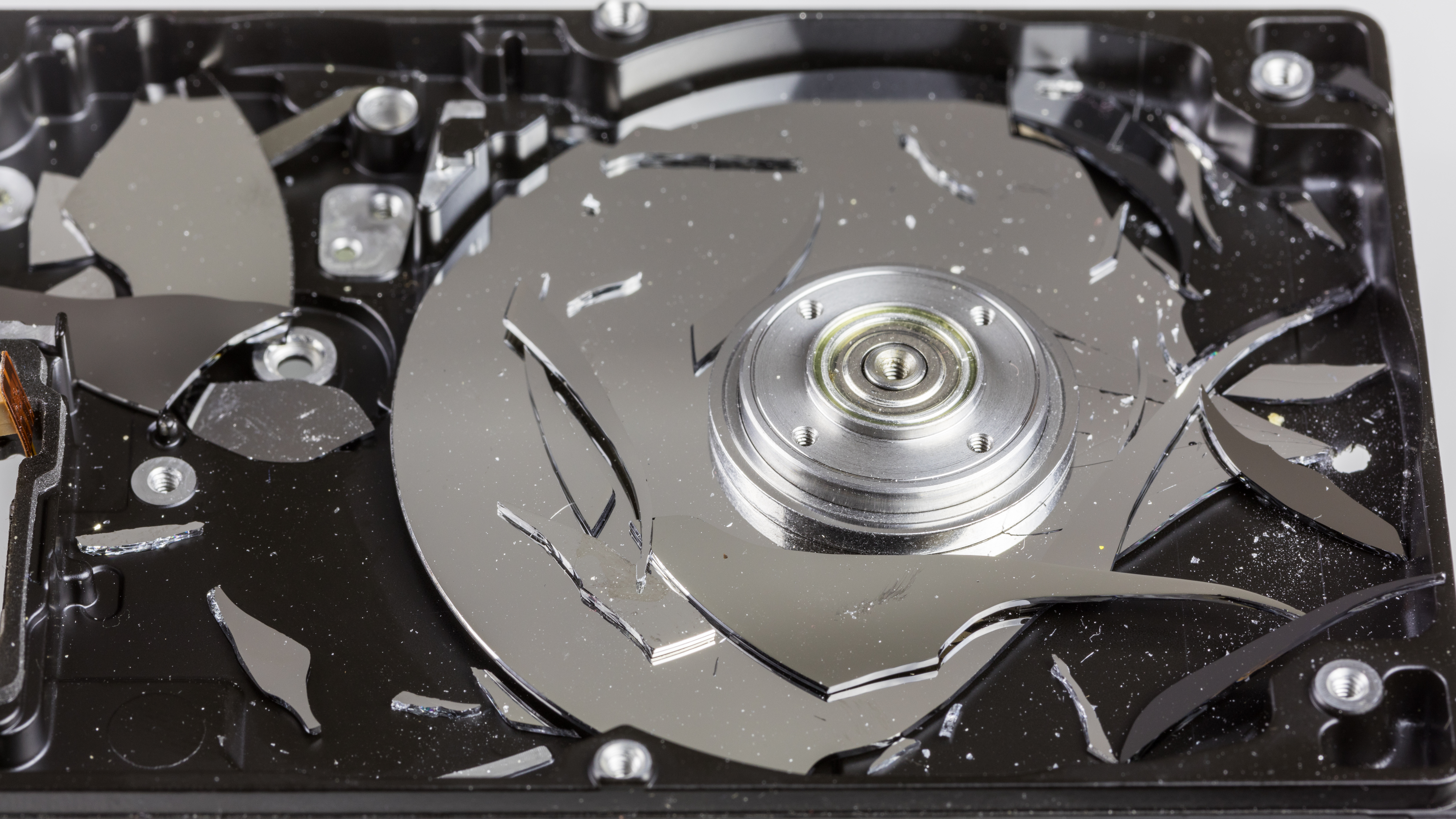 Toshiba MK1403MAV - broken glass platter